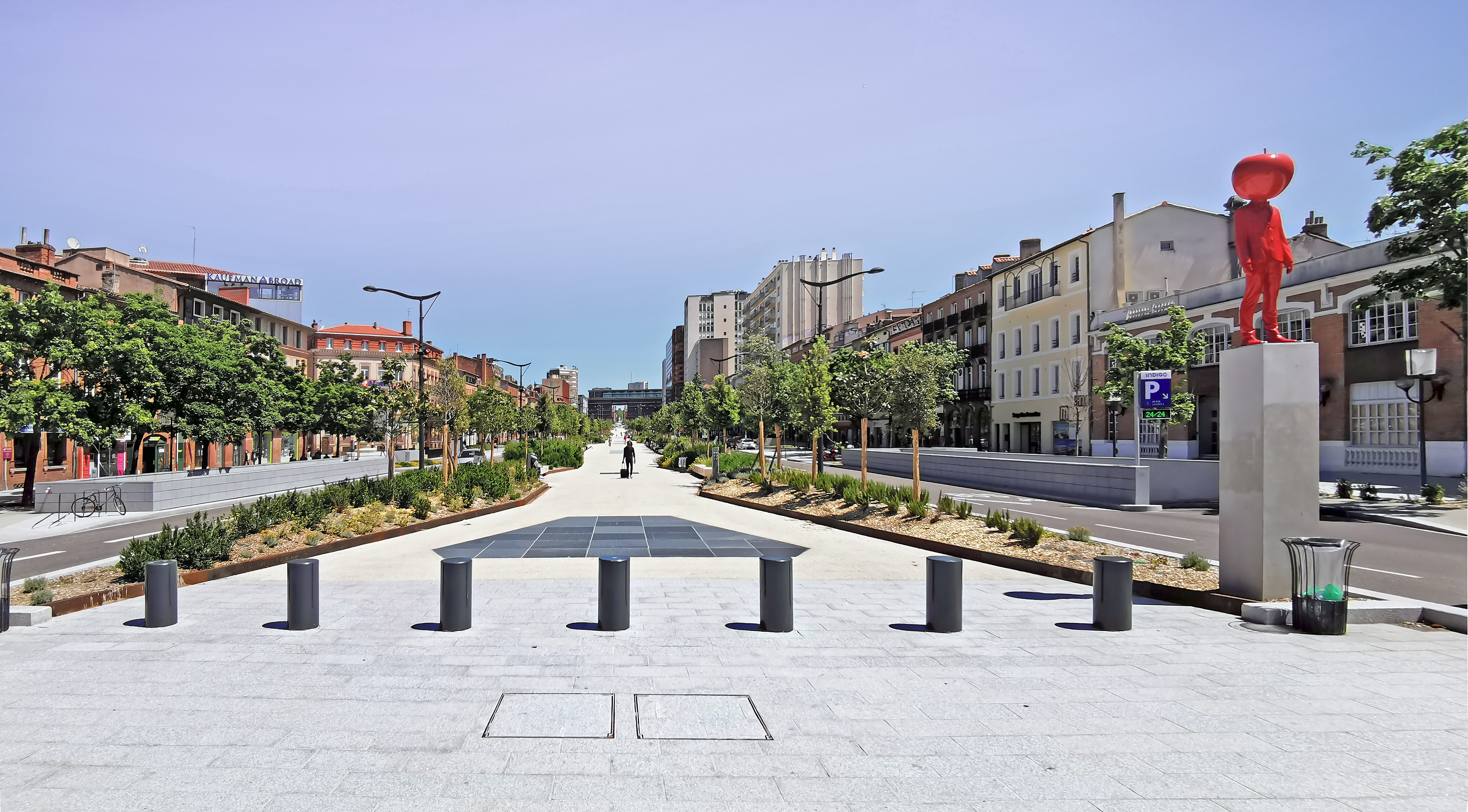 Allées Jean-Jaurès in Toulouse. New layout by Joan Busquets, the Catalan urban architect in charge of the project. Inaugurated in December 2019, a 17-meter-wide central promenade with green spaces and gardens and mineral pedestrian zones unfolding over 565 meters.